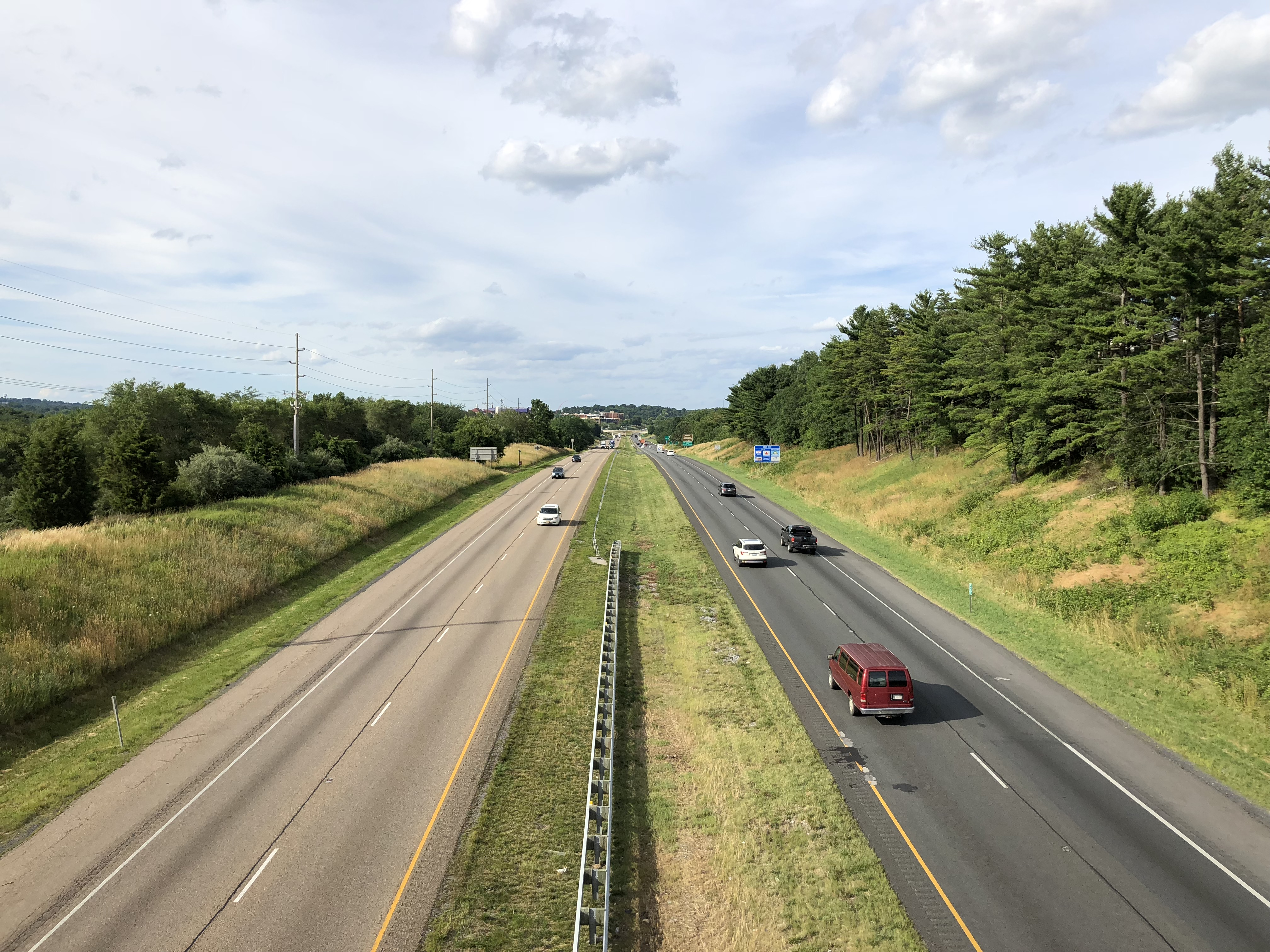 View north along Interstate 81 from the overpass for Virginia State Route 280 (Stone Spring Road) in Harrisonburg, Virginia